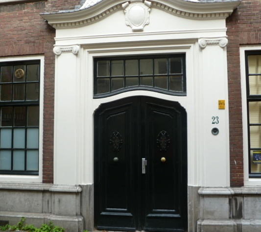 The Hague (the Netherlands), Kleine Nobelstraat 21-23, former stock exchange (1905-1969)